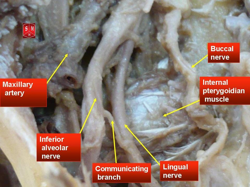 Dissection of mandibular nerve